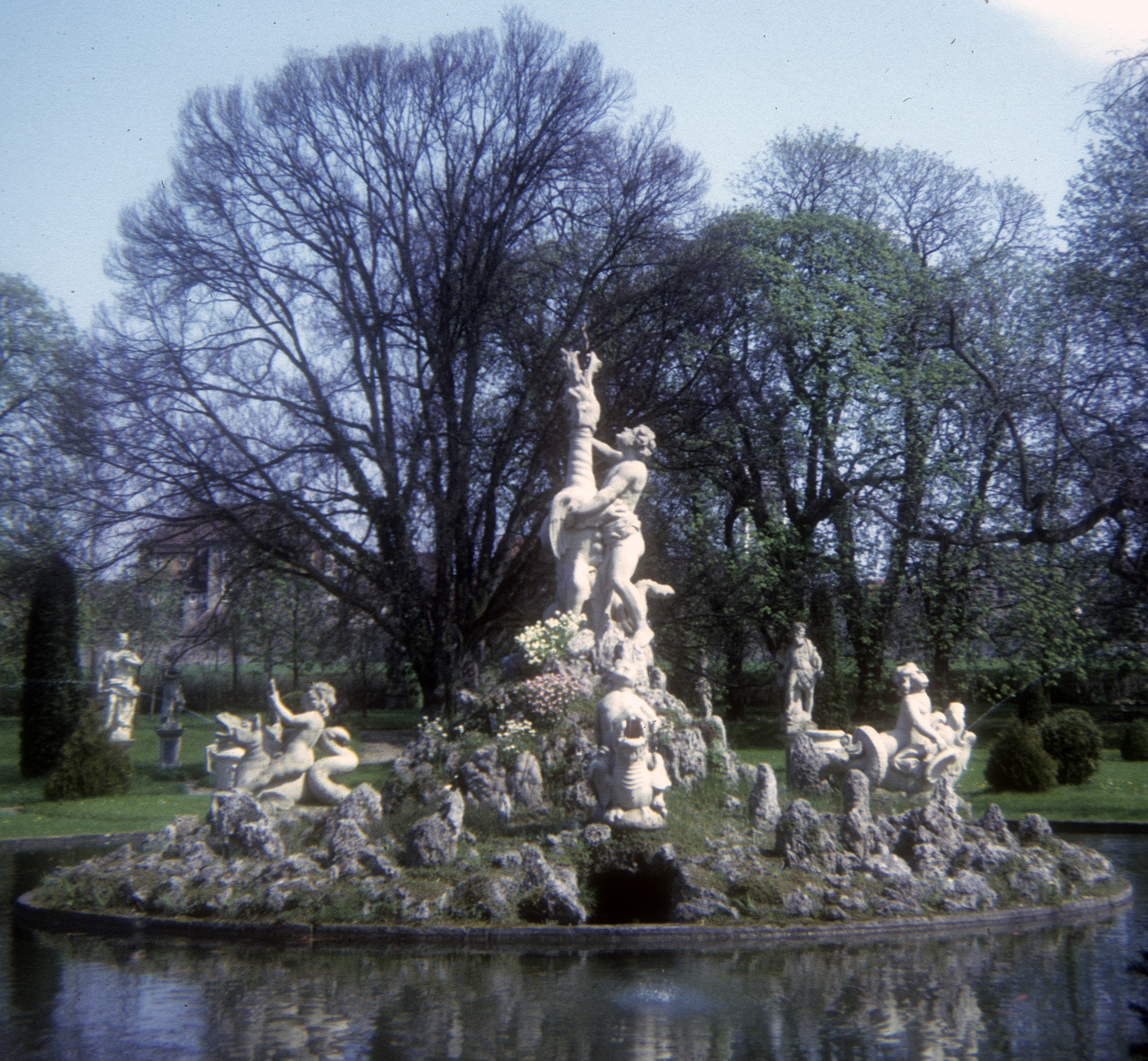 Hercules Fountain at Weikersheim Castle